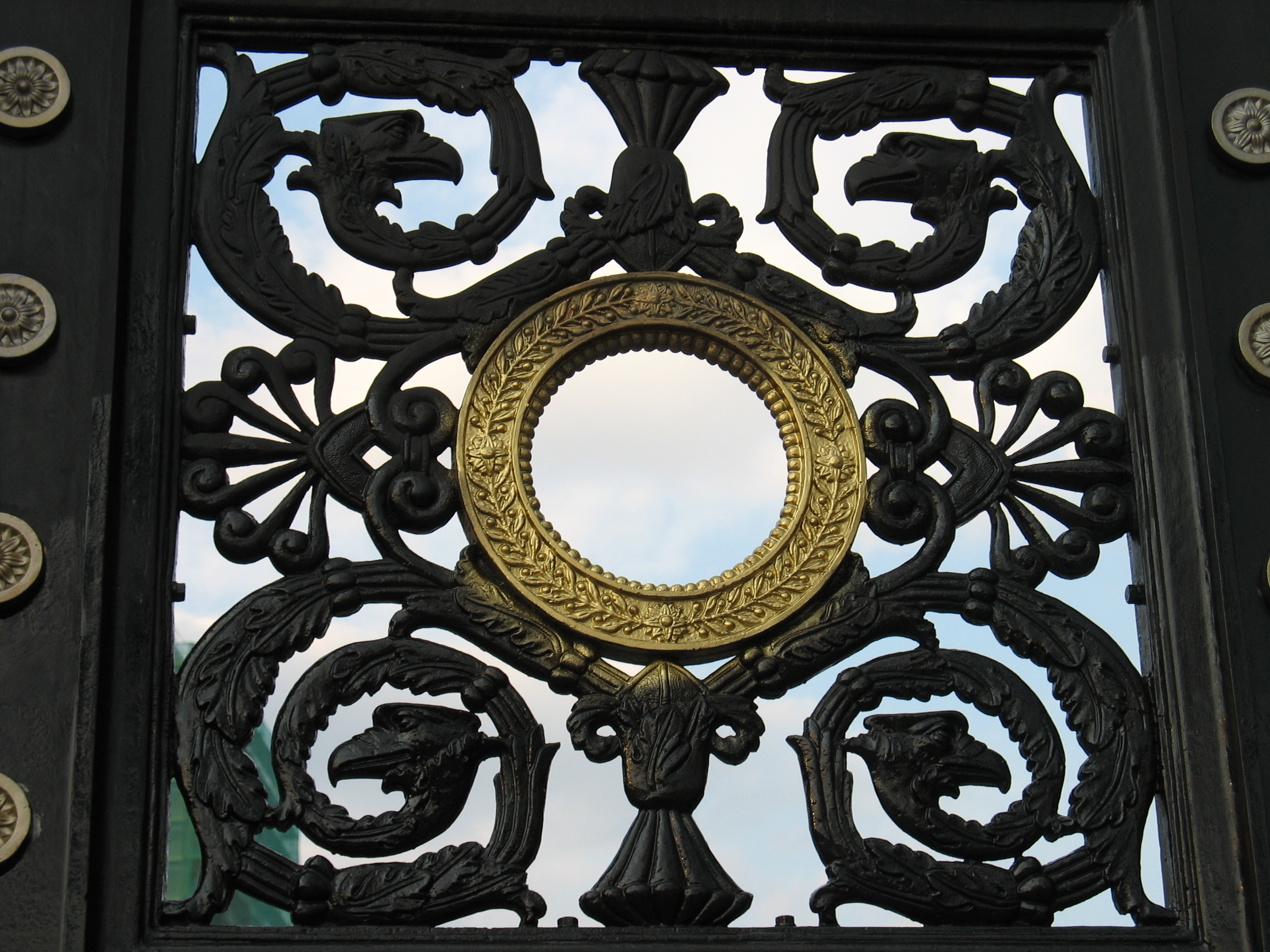 Fragment of grille of Alexander Garden near from Moscow Kremlin